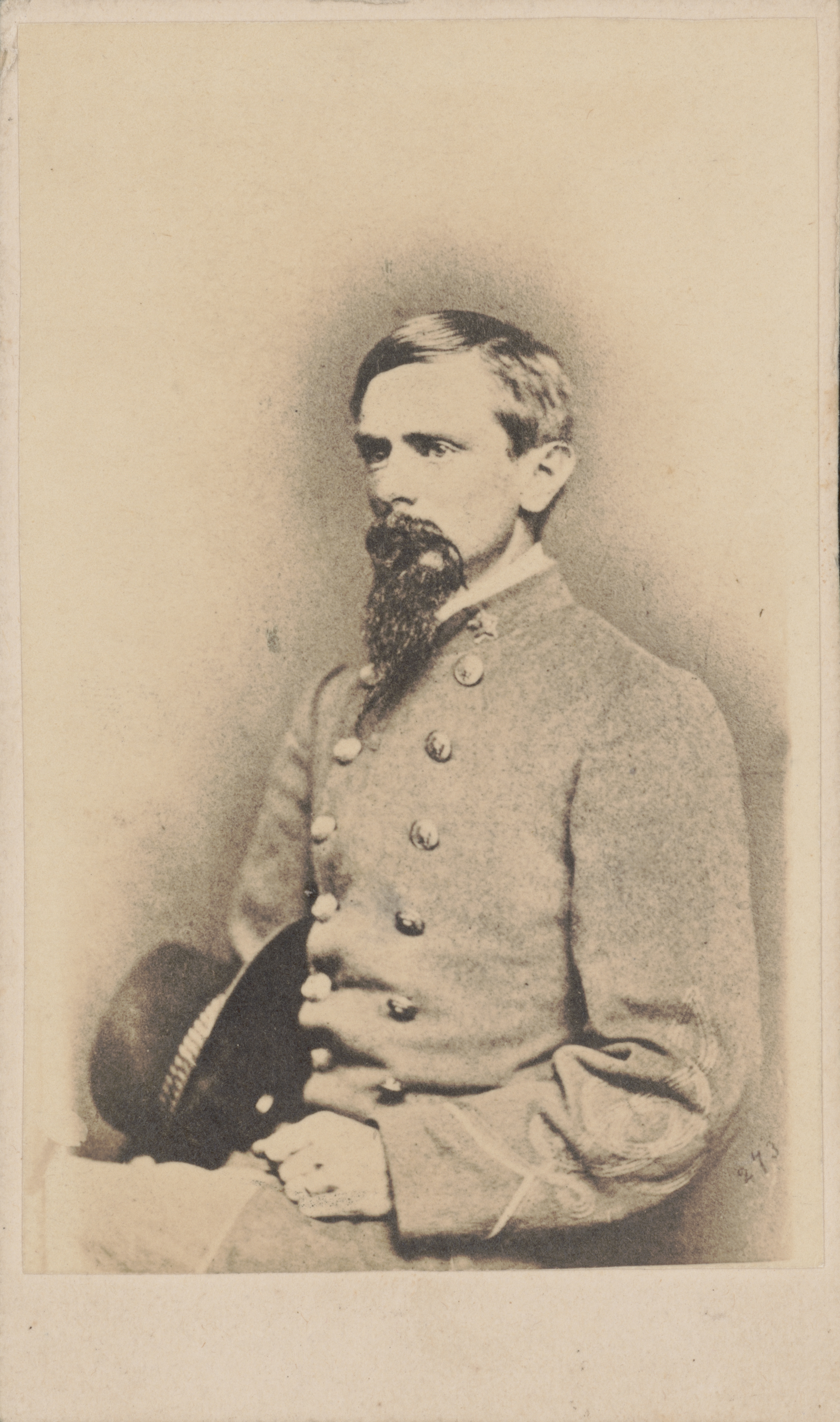 Major Bernard Likens Wolff (1837-1869) of Co. D, 2nd Virginia Infantry Regiment and Rockbridge 1st Virginia Light Artillery Battery in uniform, Library of Congress